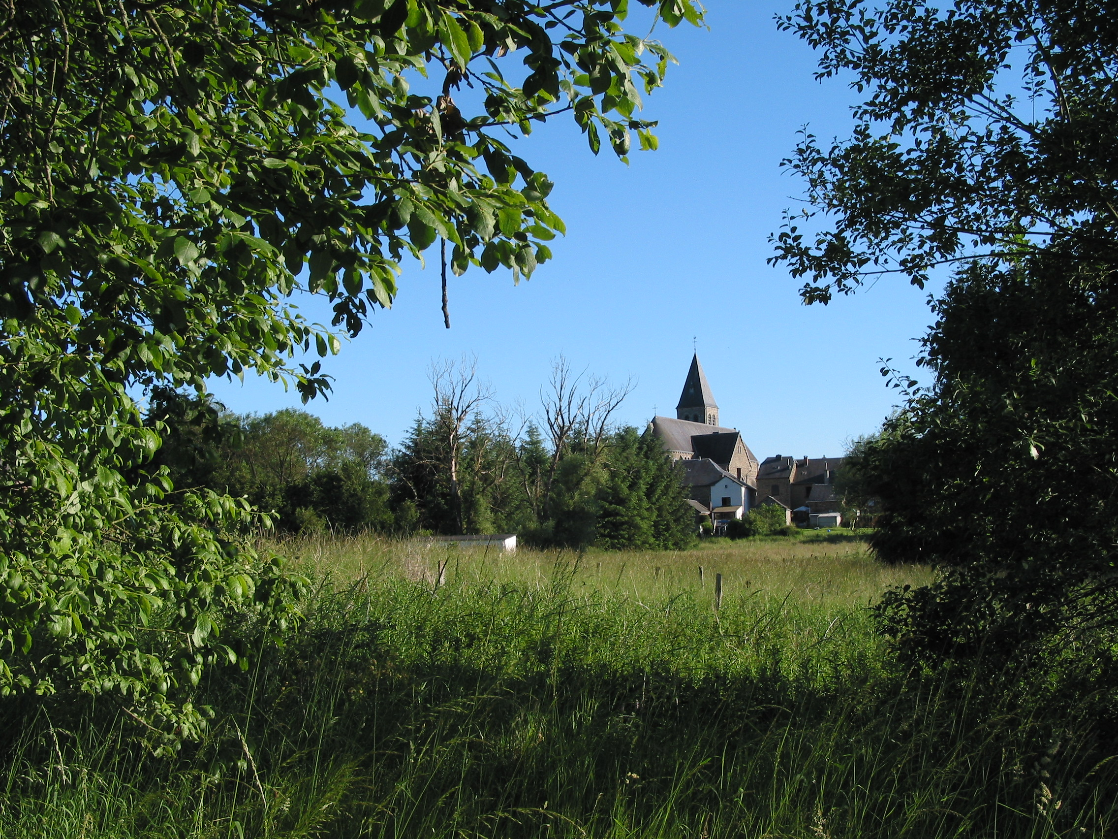 Herbeumont (Belgium), the village in de springtime.